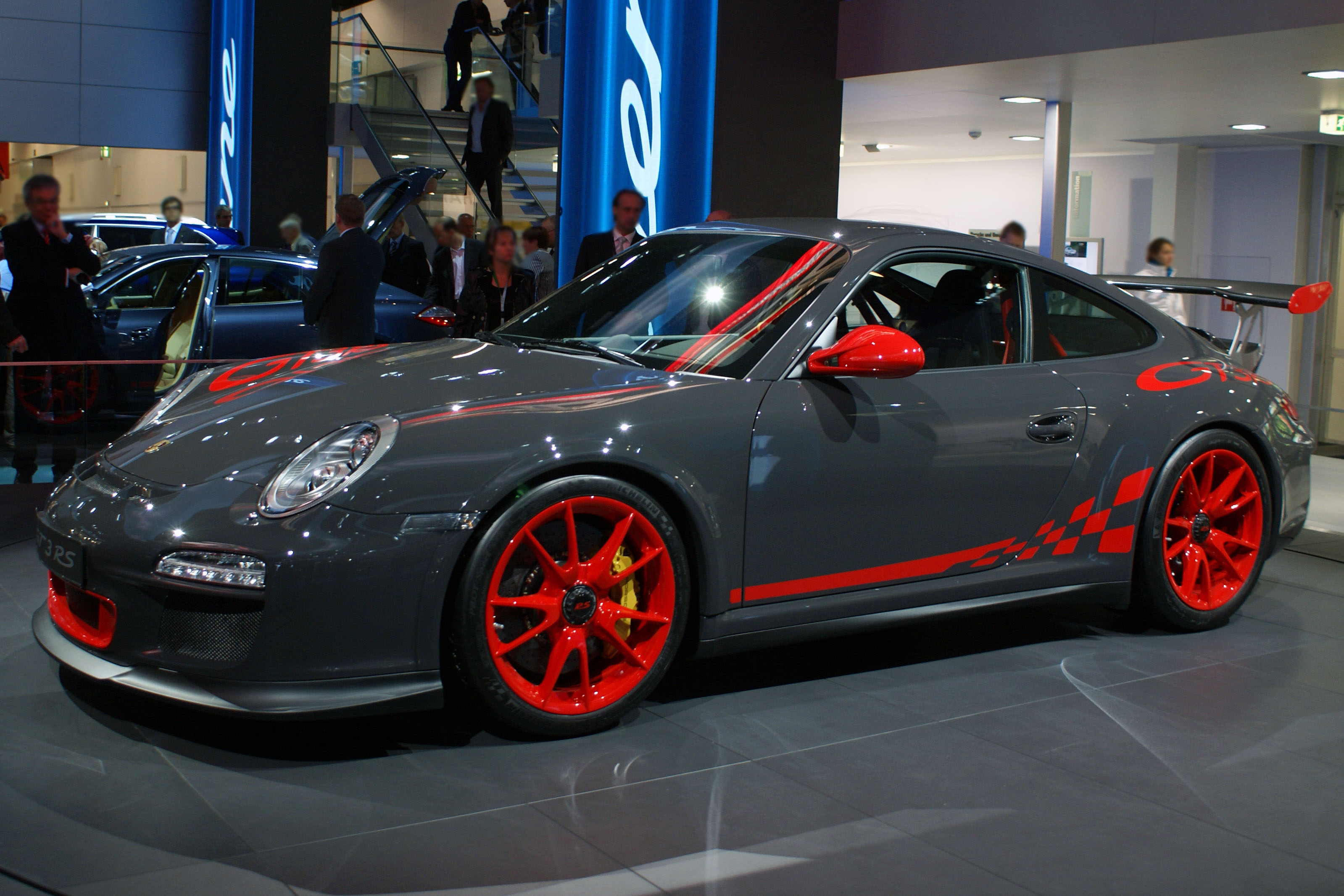 Porsche 911 GT3 RS (type 997.2) at IAA 2009, Frankfurt